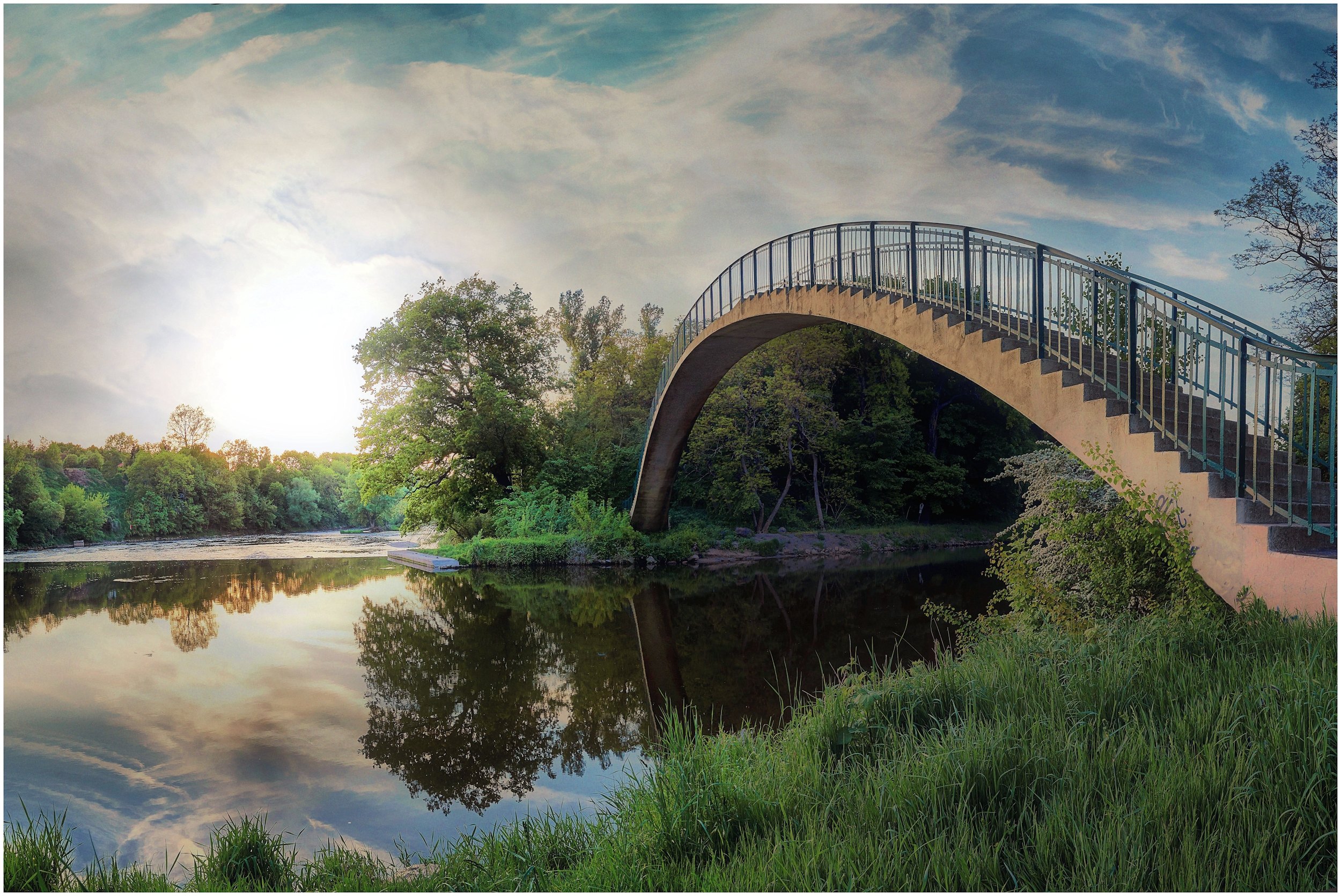 Bridge to the island Forstwerder in Halle/Saale